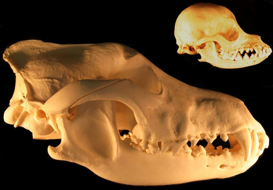 Canis lupus. Each skull was photographed from the same focal distance with a fixed zoom; the images were then combined while preserving scale. The larger skull is from a wild grey wolf. The smaller is from a chihuahua. They are in fact considered the same species. The domestic dog is the product of artificial selection over many generations. Suitable example for evolution or general biology.